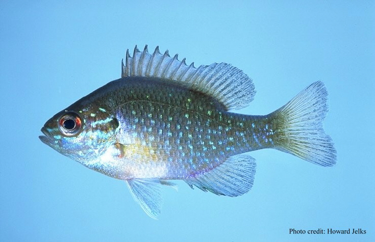 Lepomis marginatus (dollar sunfish)